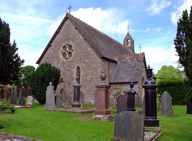 Trefilan Parish Church Dedicated to St Hilary: the original form of the parish name was said to be Tref-Ilar. The ancient church was completely rebuilt around 1806.